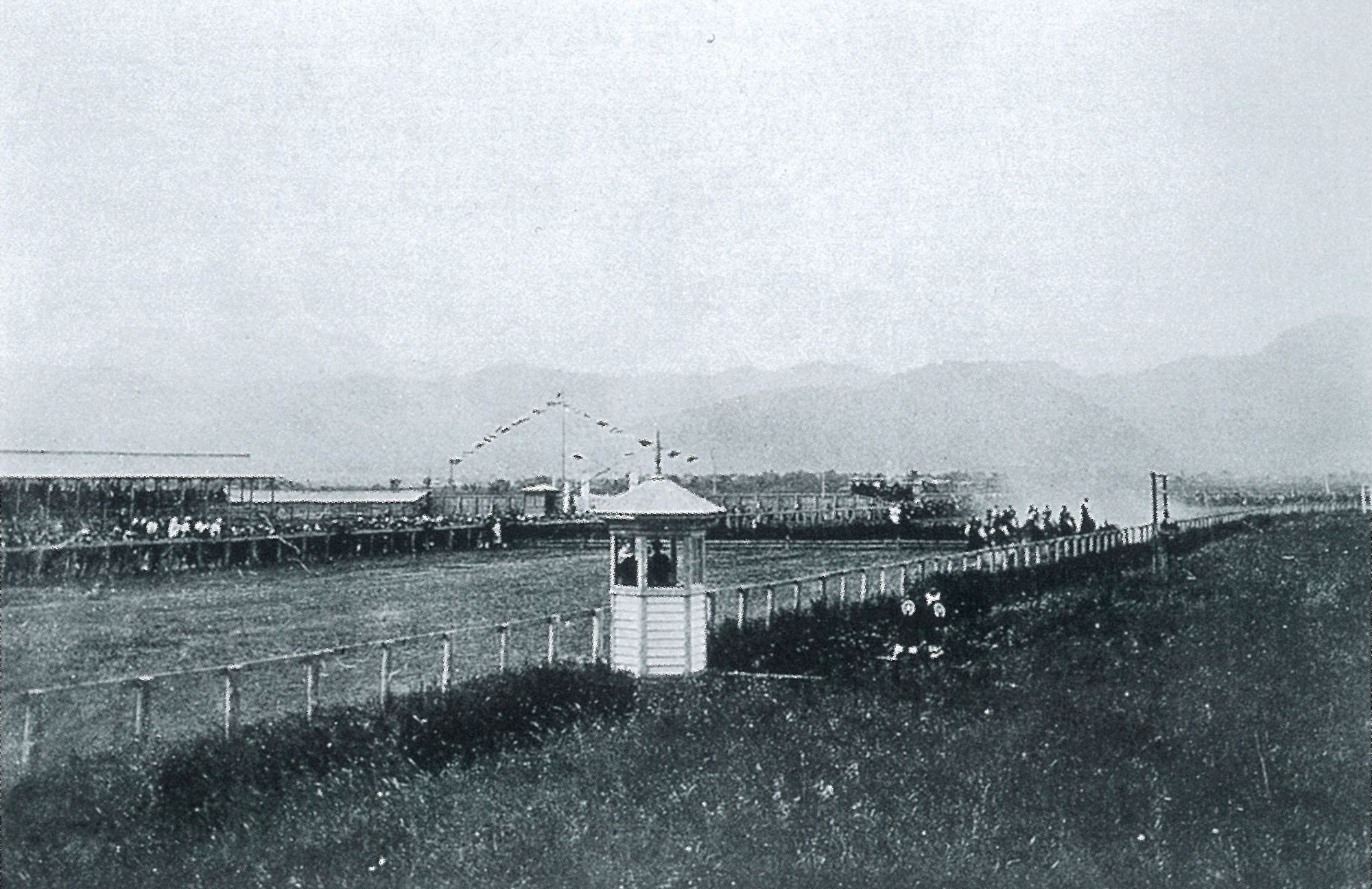 Old Japanese Racecourse (1887-1906) The Racecourse was built in Nakajima Park (Hokkaido Sapporo)